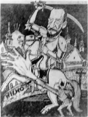 Polish caricature: Lithuanian trying to stop general Zeligowski from Wilno (Vilnius)